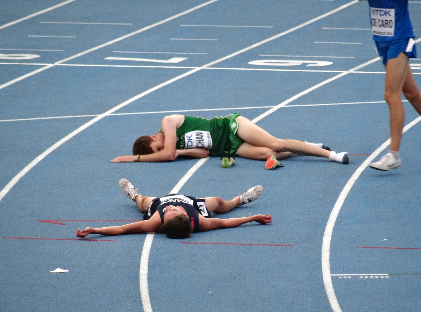 2016 IAAF World U20 Championships in Bydgoszcz, 5000m men final